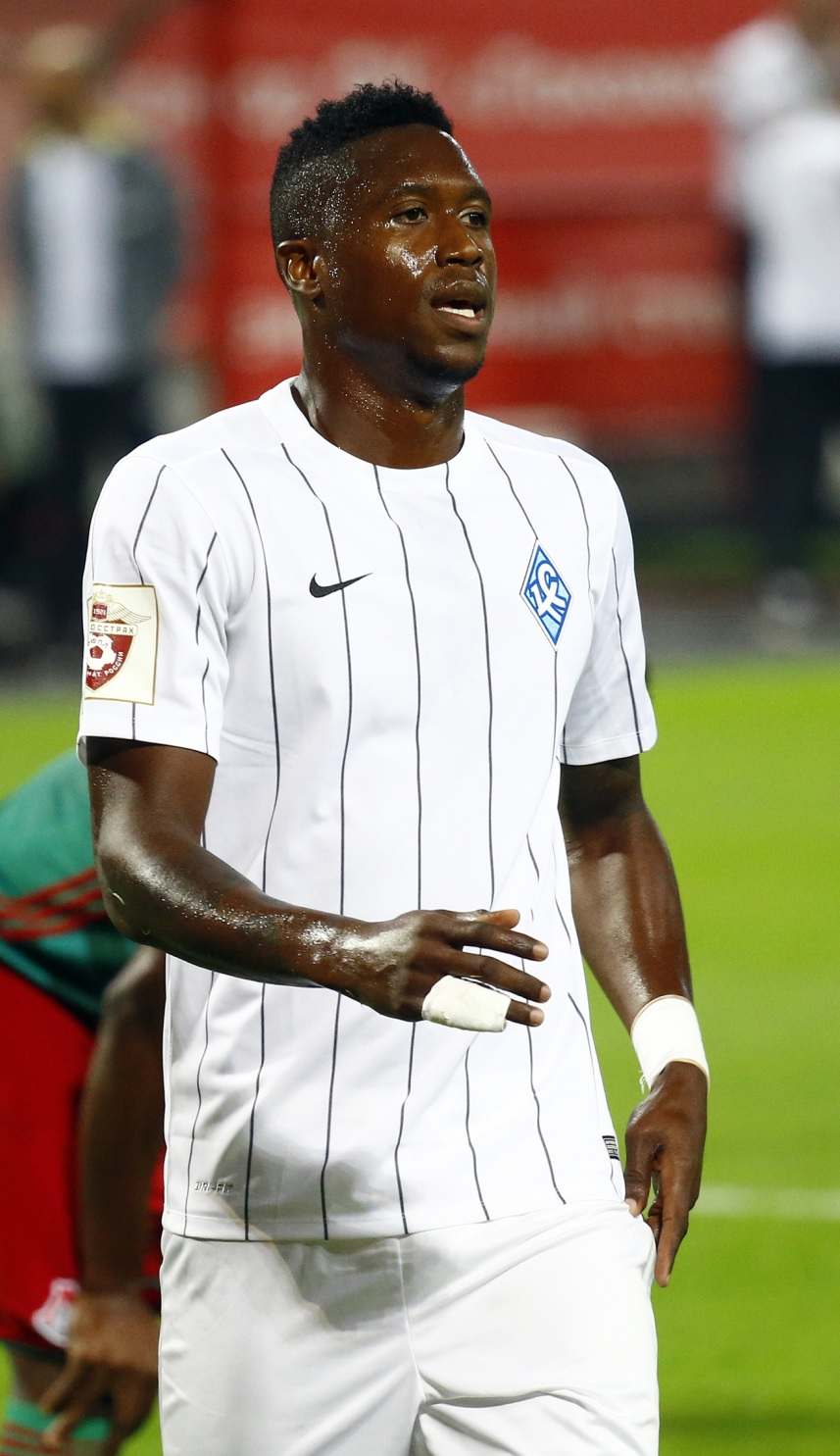 Sheldon Bateau with FC Krylia Sovetov Samara in a game against FC Lokomotiv Moscow.